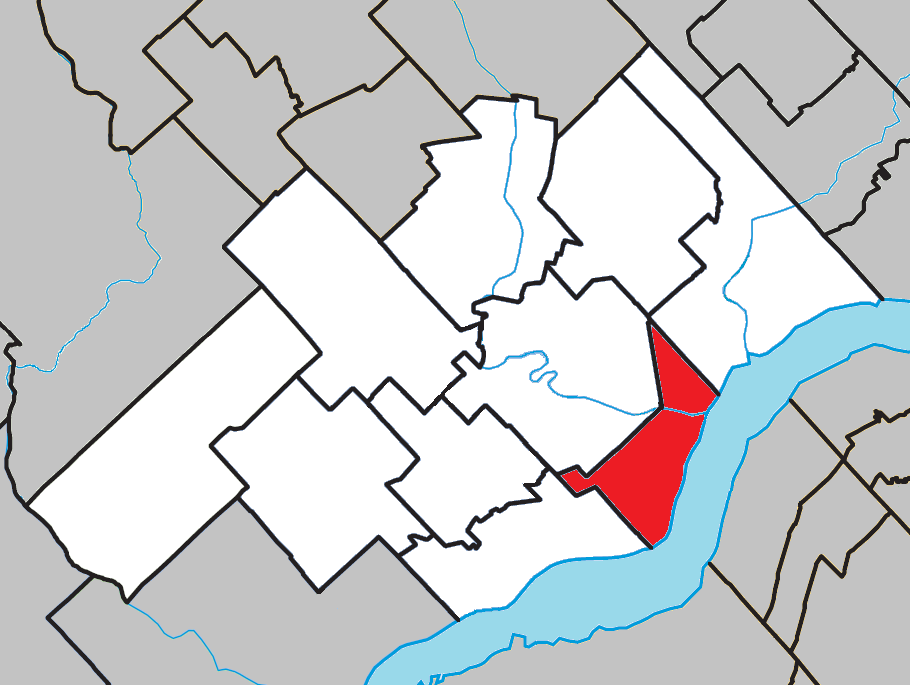 Location of Batiscan, Quebec within Les Chenaux Regional County Municipality.